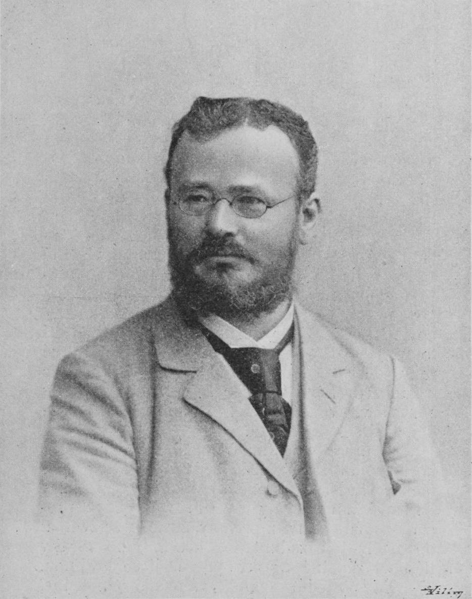 Photograph of Arnošt Muka (1854 - 1932), Sorbian writer from Bautzen.